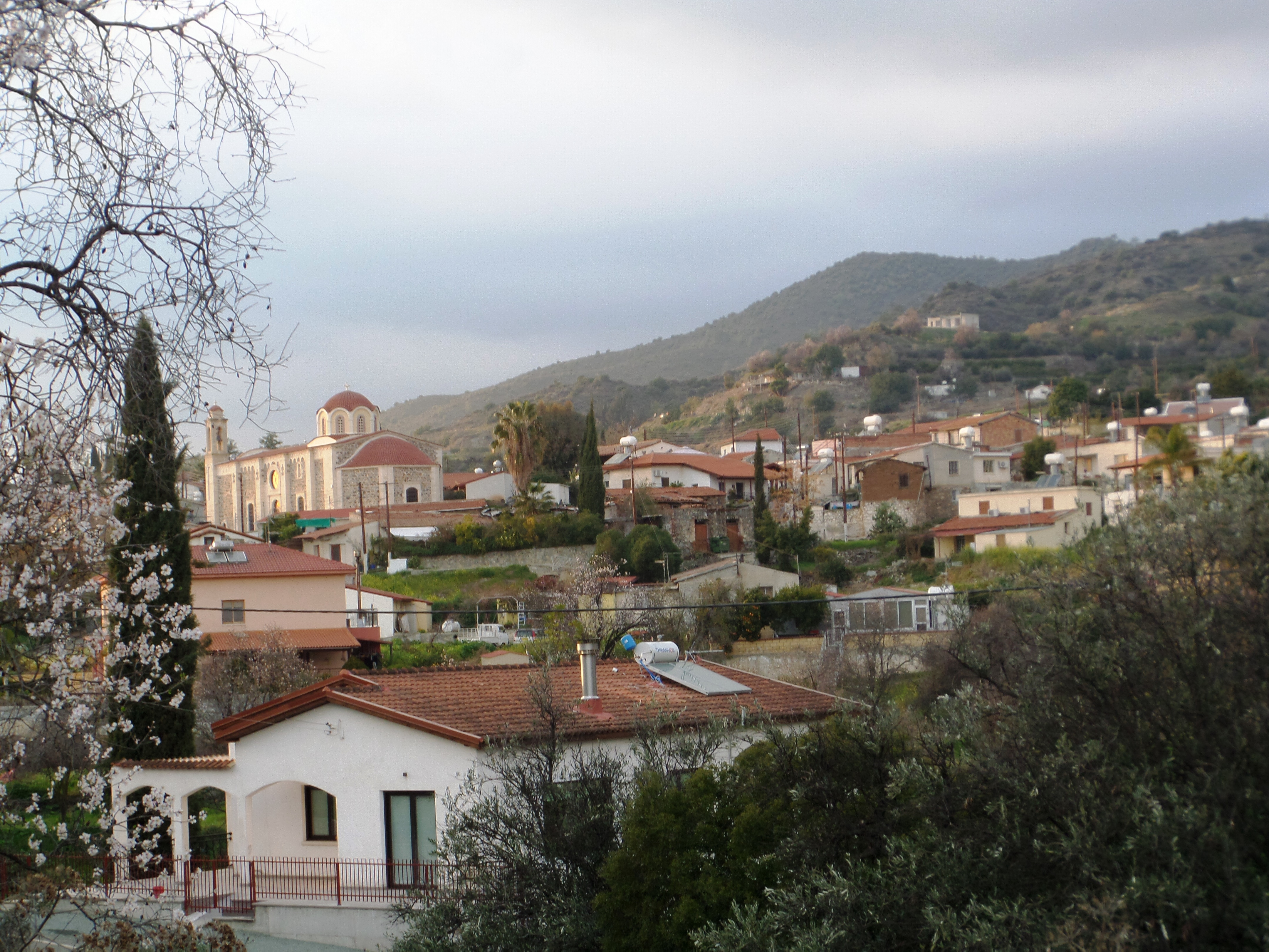 View of Eptagoneia.